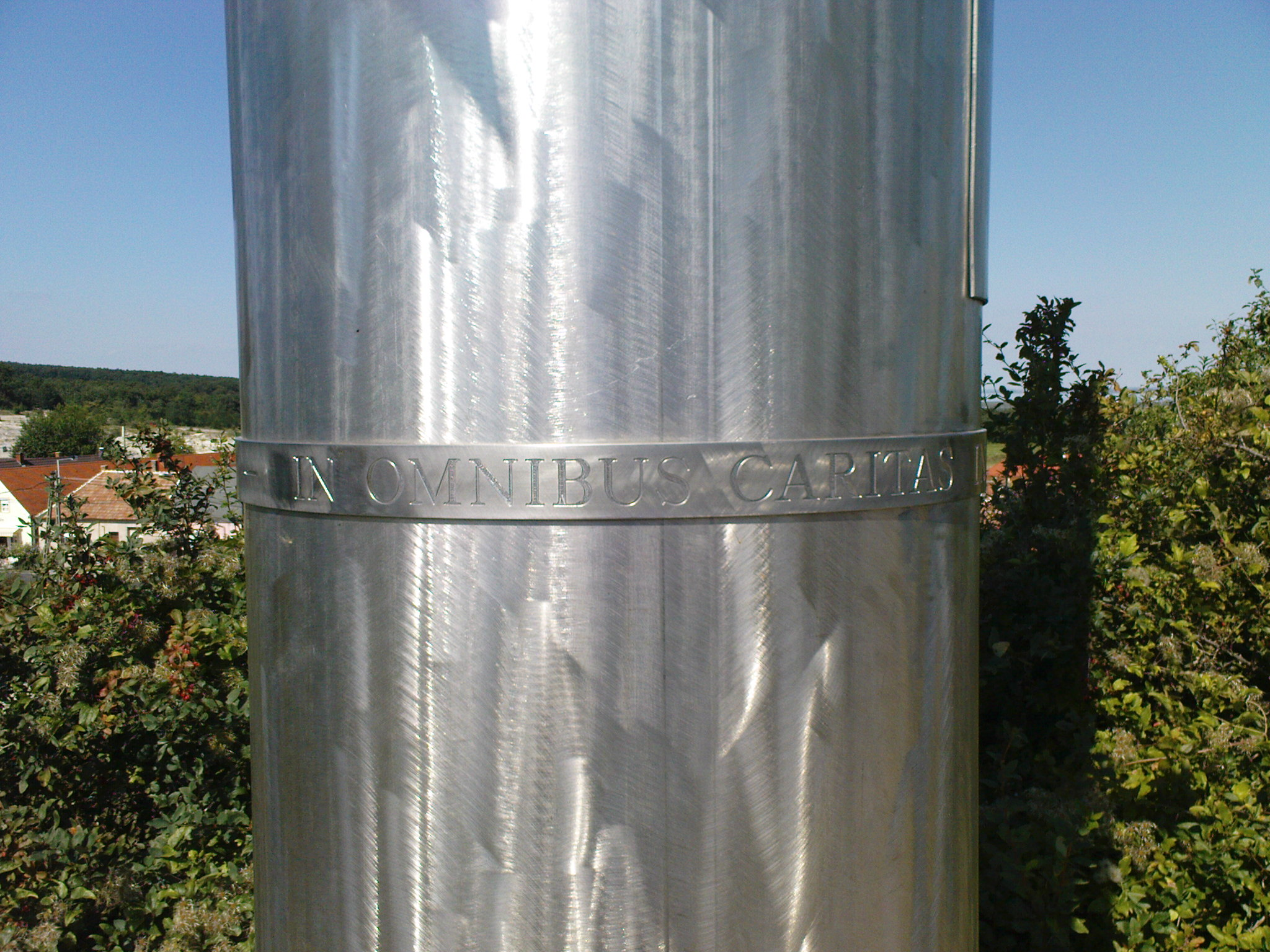 Last words of the latin phrase "In necessariis unitas, in dubiis libertas, in omnibus caritas" on the European Memorial in Fertőrákos, Hungary.